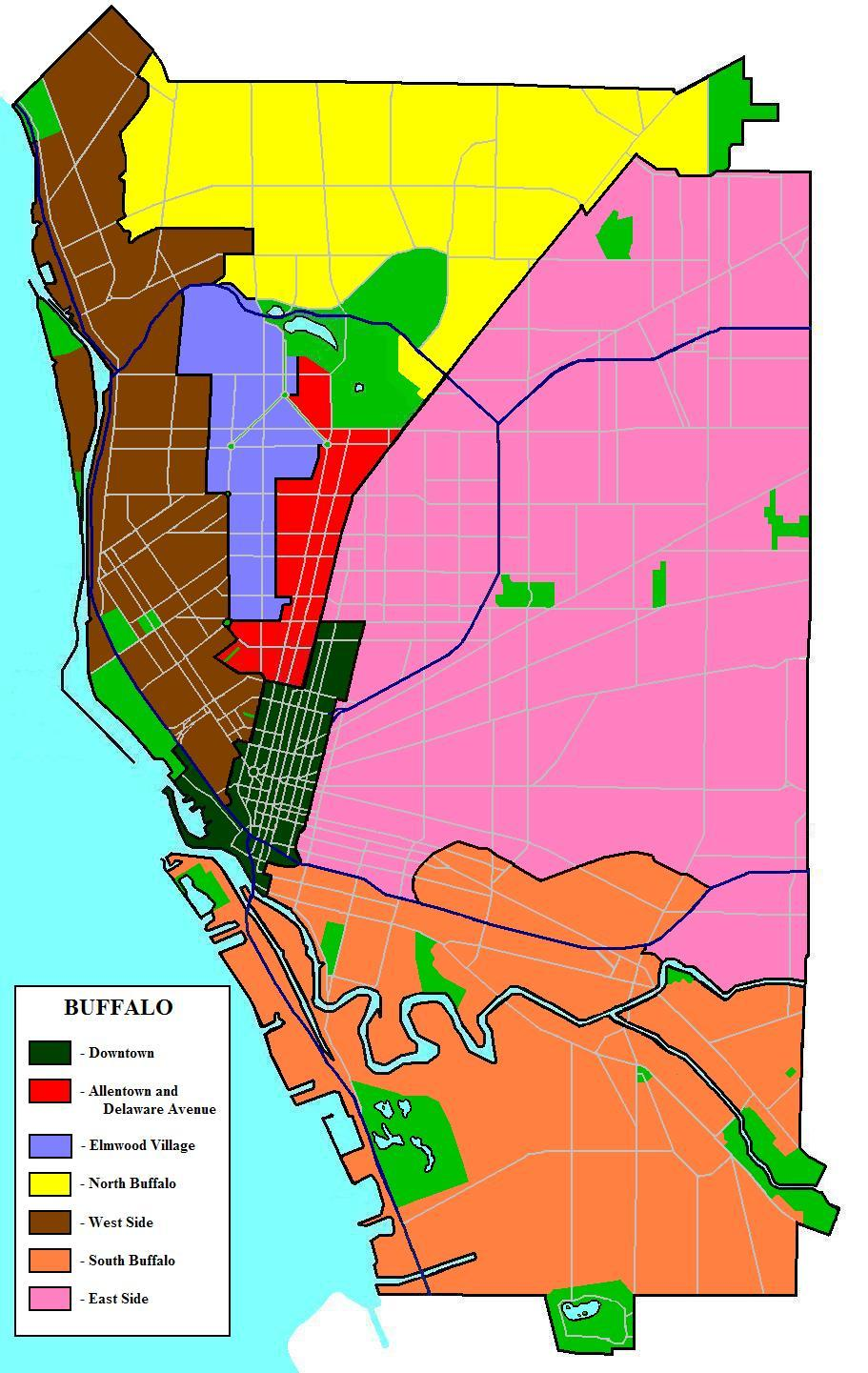 Proposal for districtifying Buffalo, New York Wikivoyage article. To go in Buffalo, New York talk page.